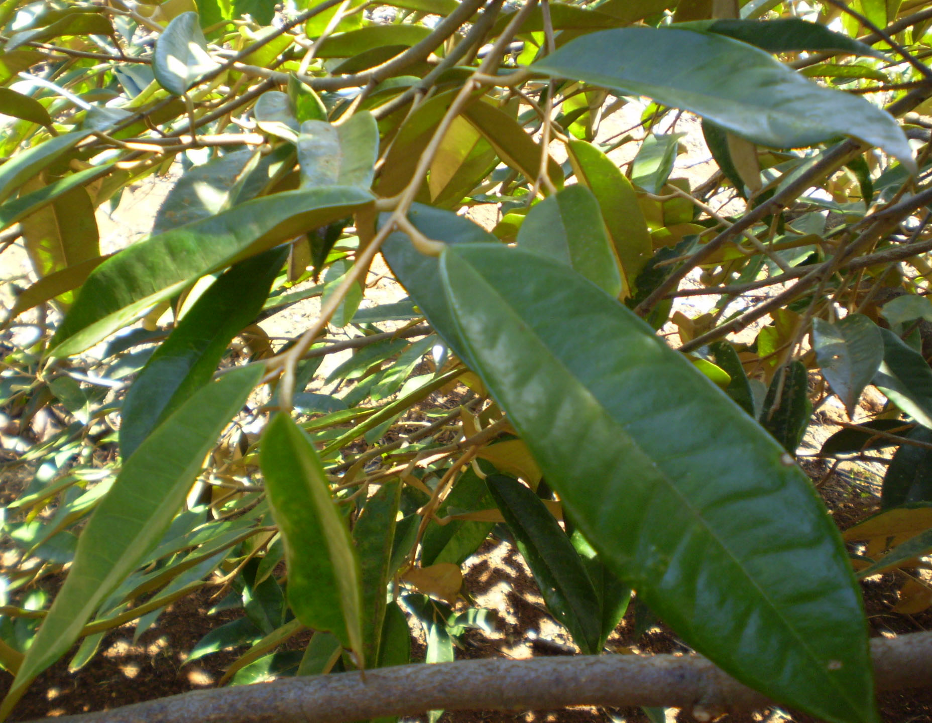 Leaves of durian, Vietnam